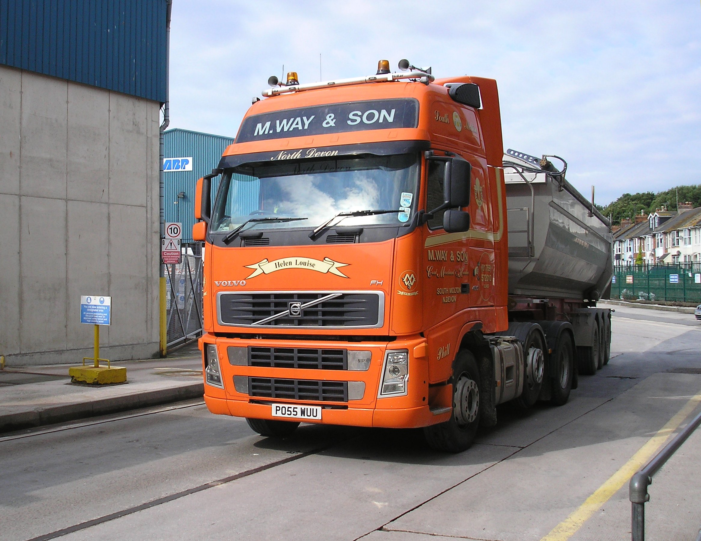 PO55 WUU "Helen Louise" VOLVO FH 480 6x2 (GXL) of M. Way & Son leaves the Port of Teignmouth. Camera: Olympus FE-120 6.0 Digital.